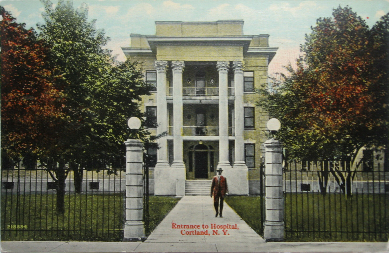 postcard of Cortland Hospital, Cortland, New York, circa 1911